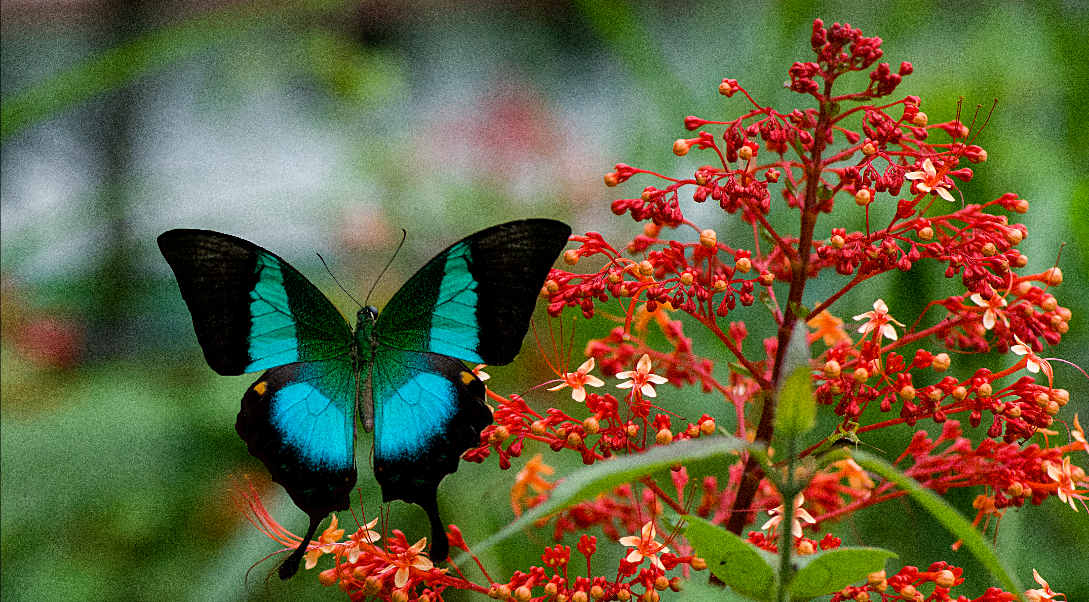 Papilio Buddha from Chamakkavu,a sacred grove near Payyanur in North Kerala